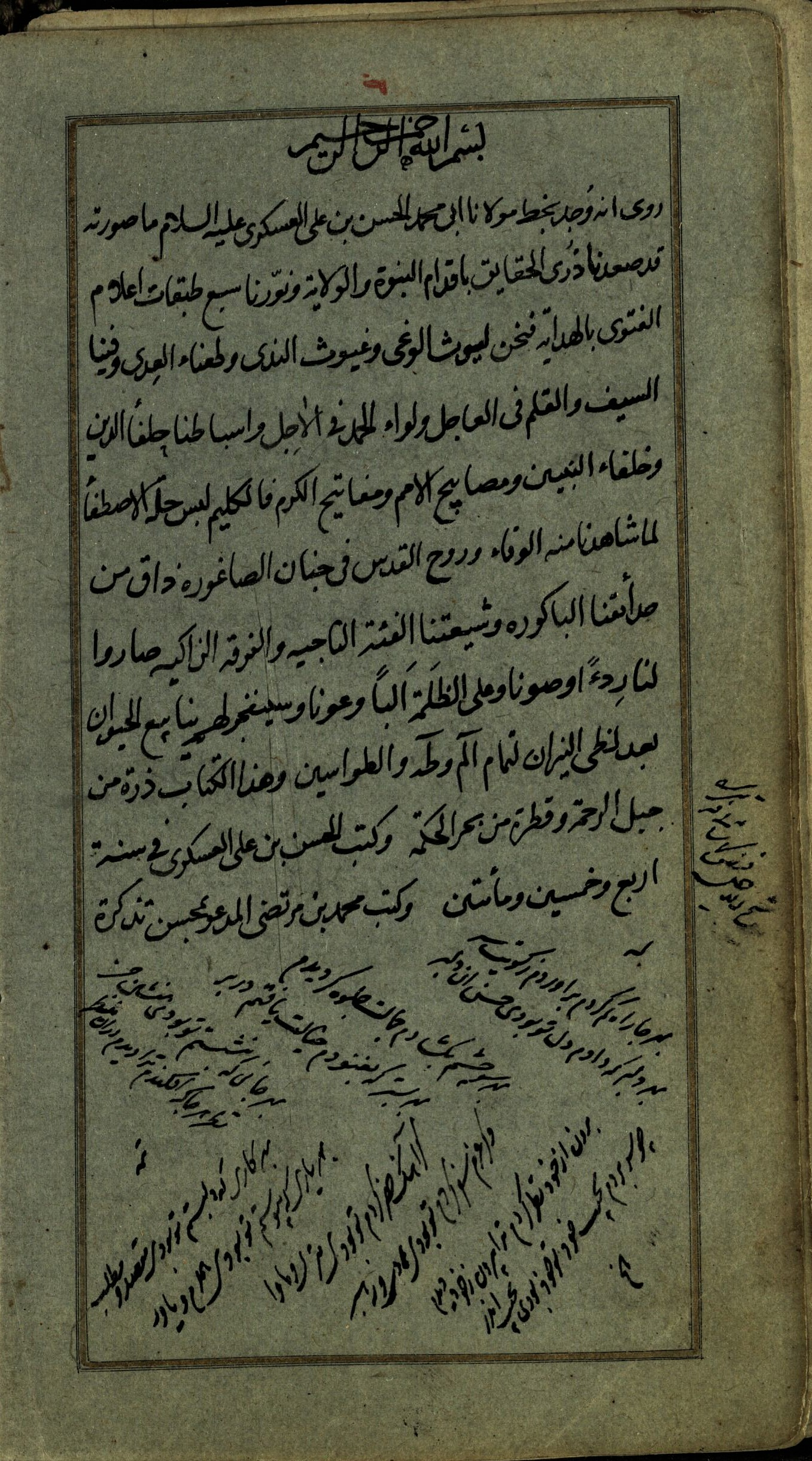 Author: Mohsen Fayz Kashani (1599-1680) A Note by Mohsen Fayz Kashani in literary collection compiled by Mirza Muhammad-Fayaz Sabzevari Central Library and Documentation Center of the University of Tehran Reference Number: 9707, page: 48 (back)